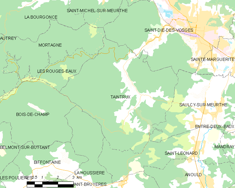 Map of French municipality Taintrux